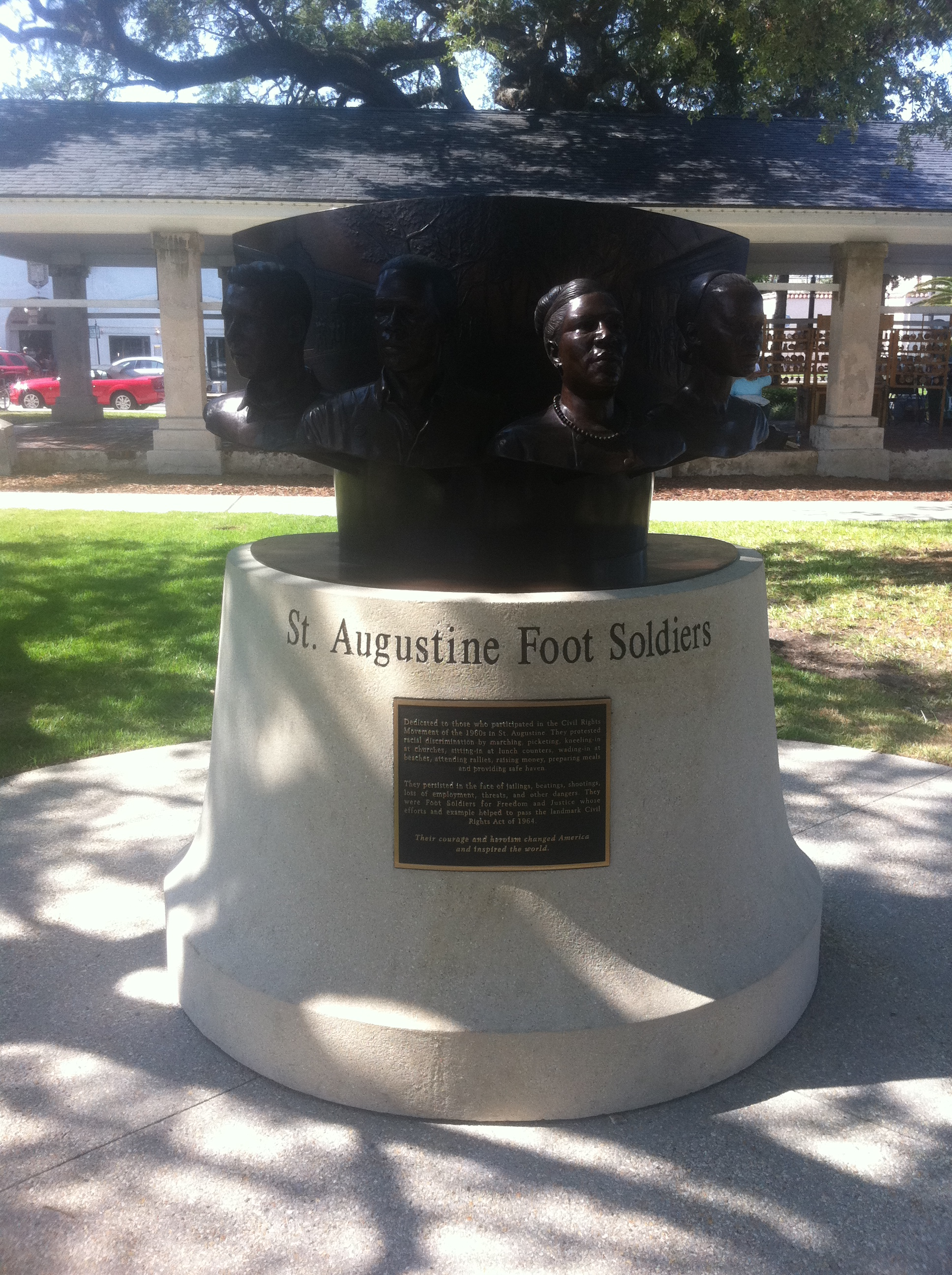 St. Augustine Foot Soldiers memorial dedicated June 11, 2011